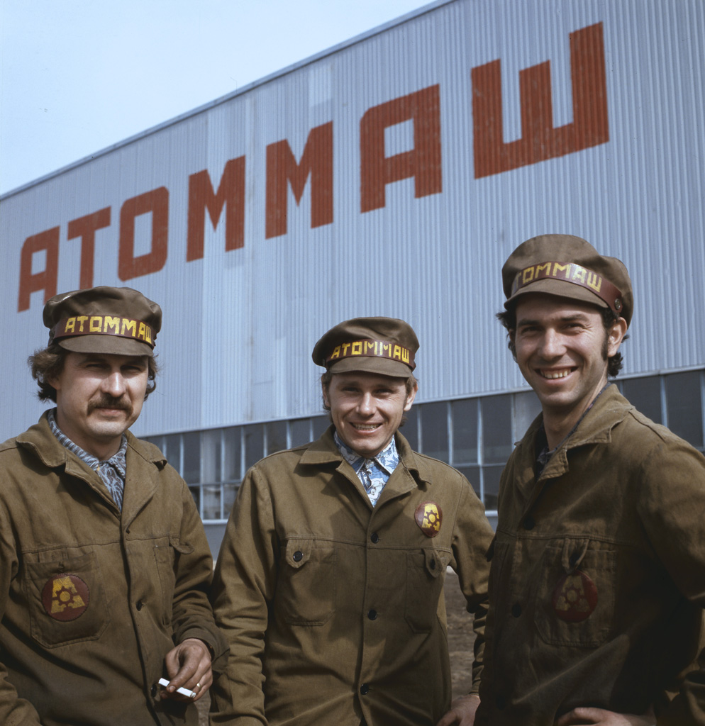 “Builders of Atommash Association of Enterprises”. Builders of the Atommash Association of Enterprises for Nuclear Power Engineering and Industry.